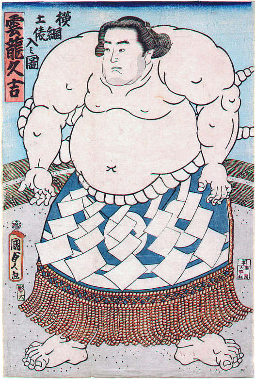 Yokozuna Unryu Hisakichi, 1864 Colour woodprint by Utagawa Kunisada II (1823-1880).